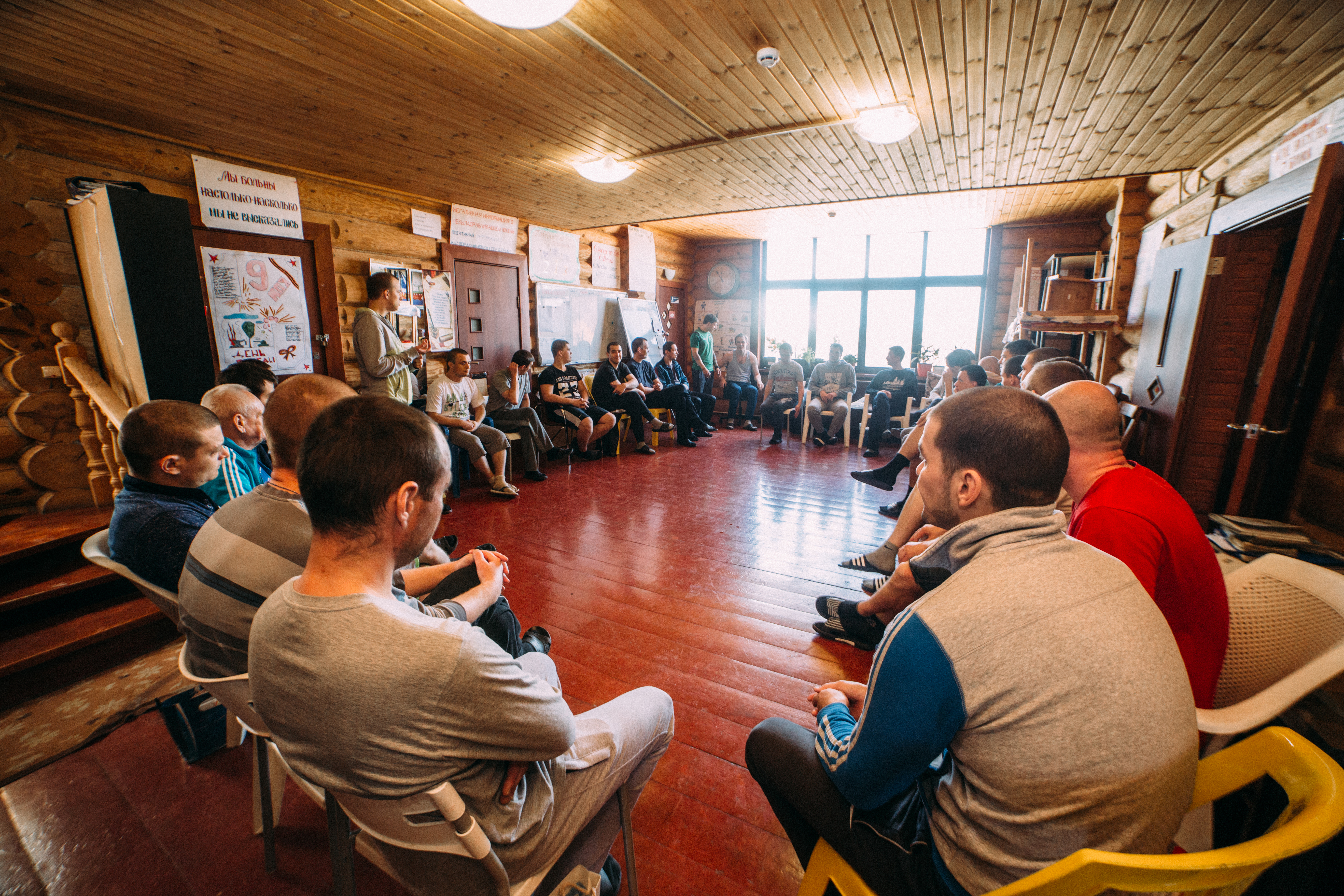 In the photo, a therapeutic self-help group for people suffering from drug addiction and alcoholism. In the rehabilitation center for dependent